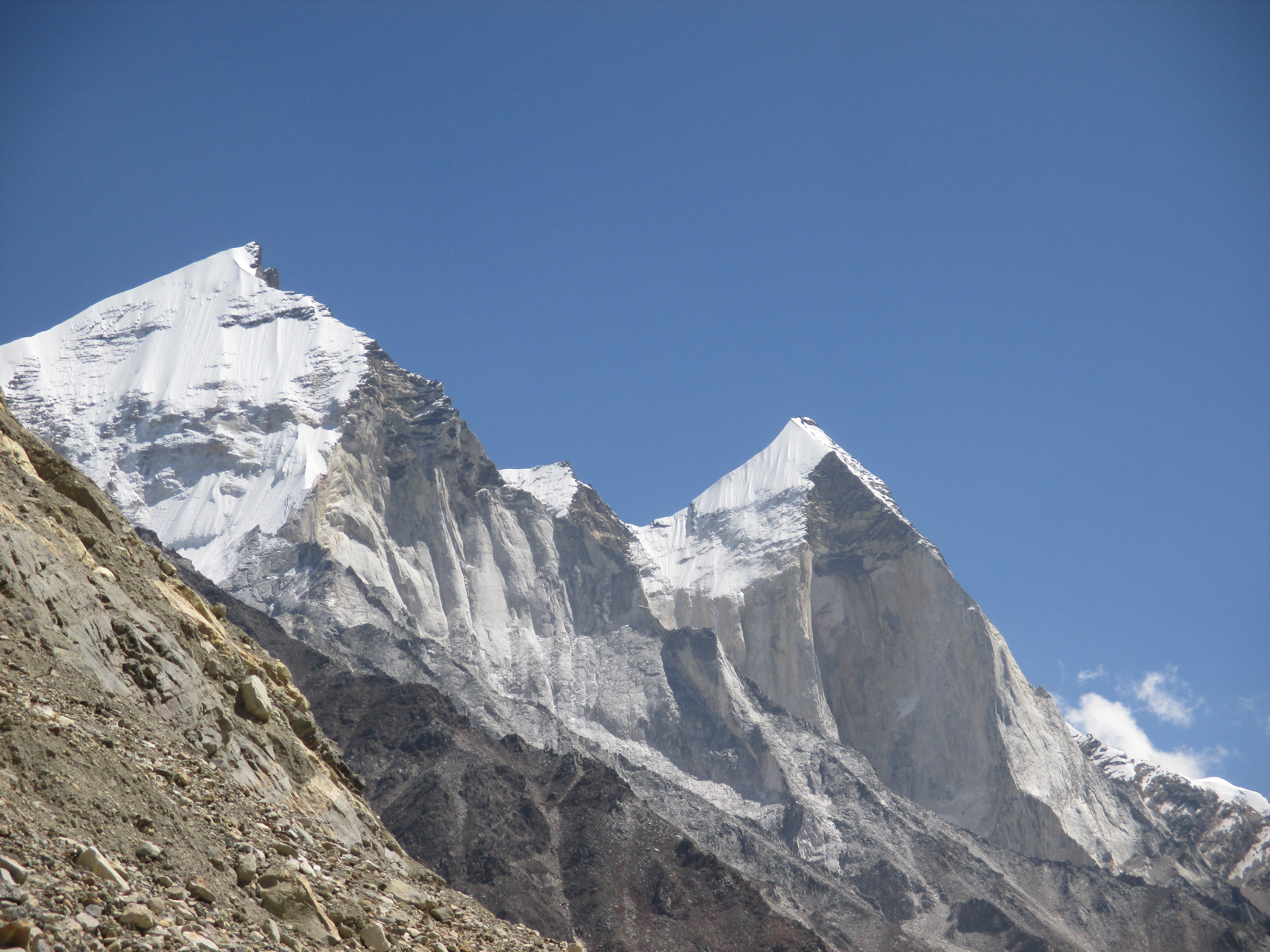 visible Bhagirathi II and III (L-R) before entering Nandanvan region